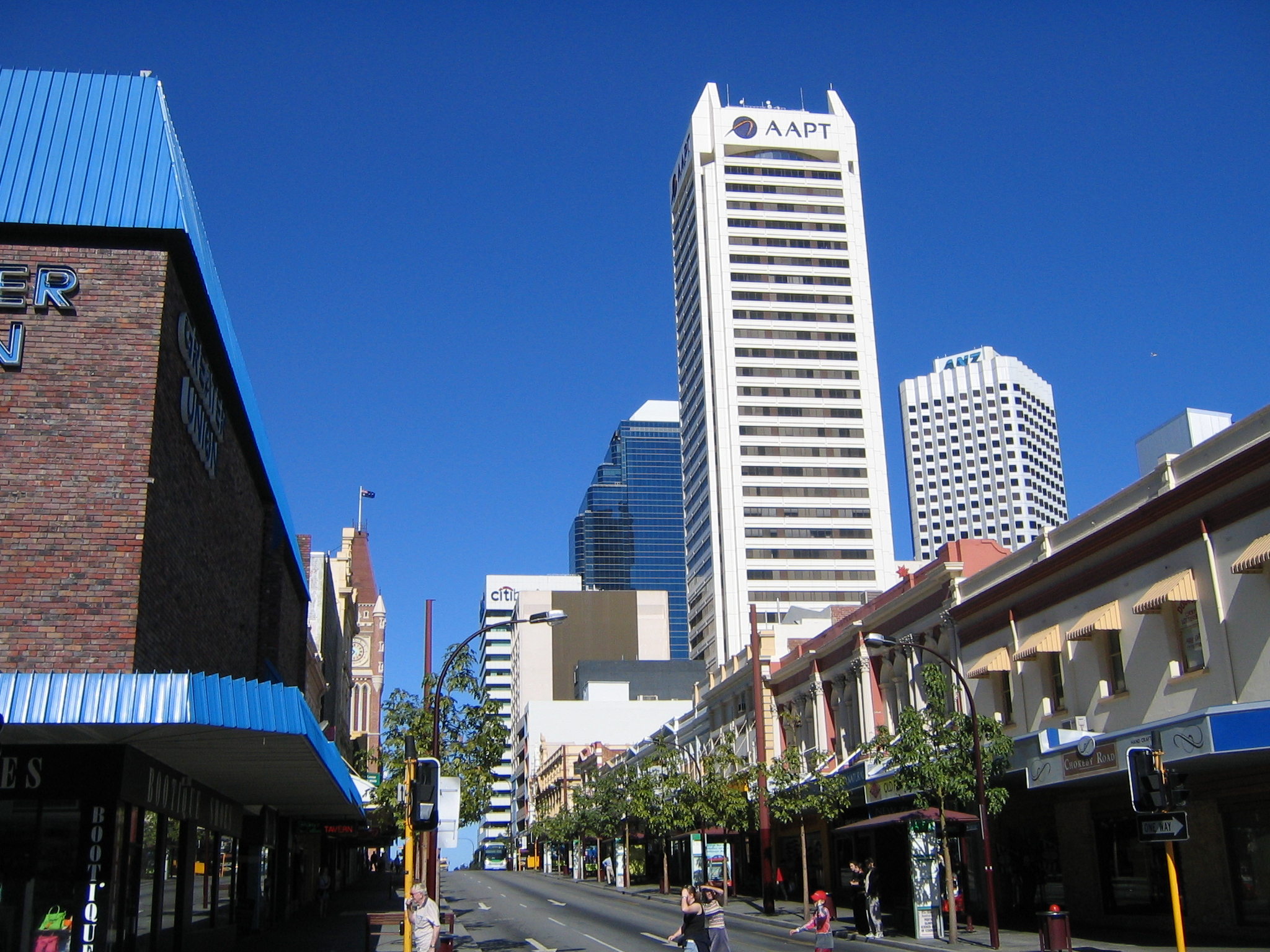 Barrack Street, Perth, Western Australia in 2004. View is from Murray Street towards Hay Street. The "AAPT"-branded building visible is St Martins Tower.